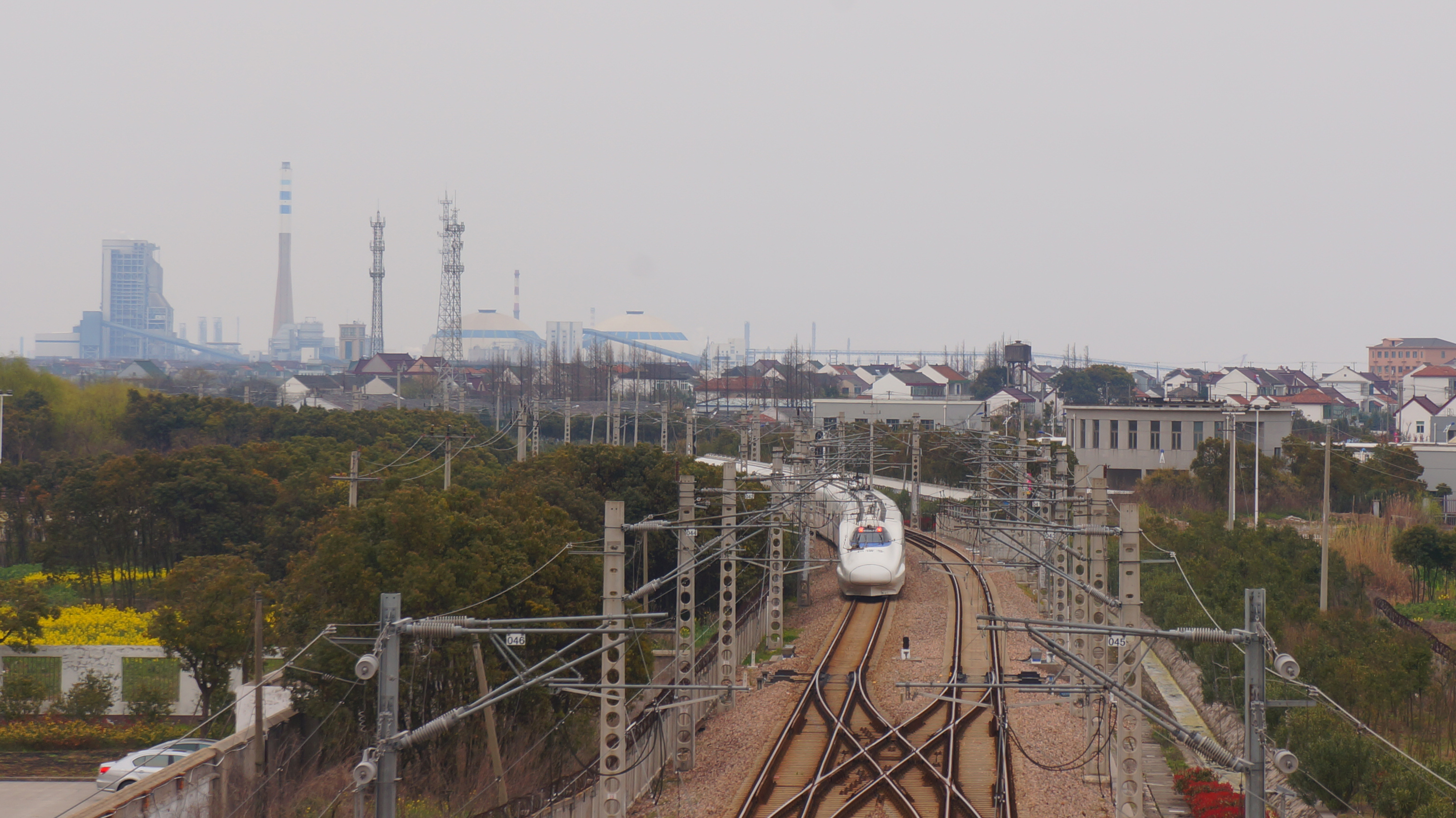 201603 Jinshan Railway